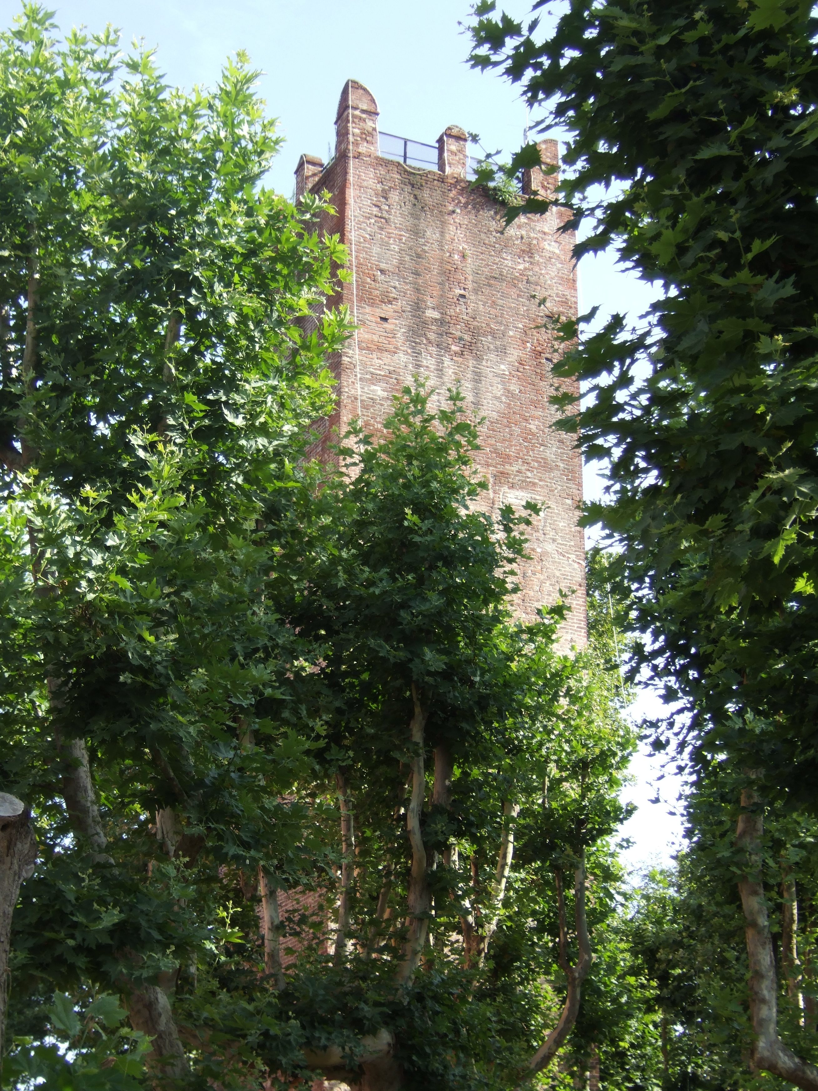 Tower of the ancient Castle (ruined) of Piobesi Torinese (Italy)